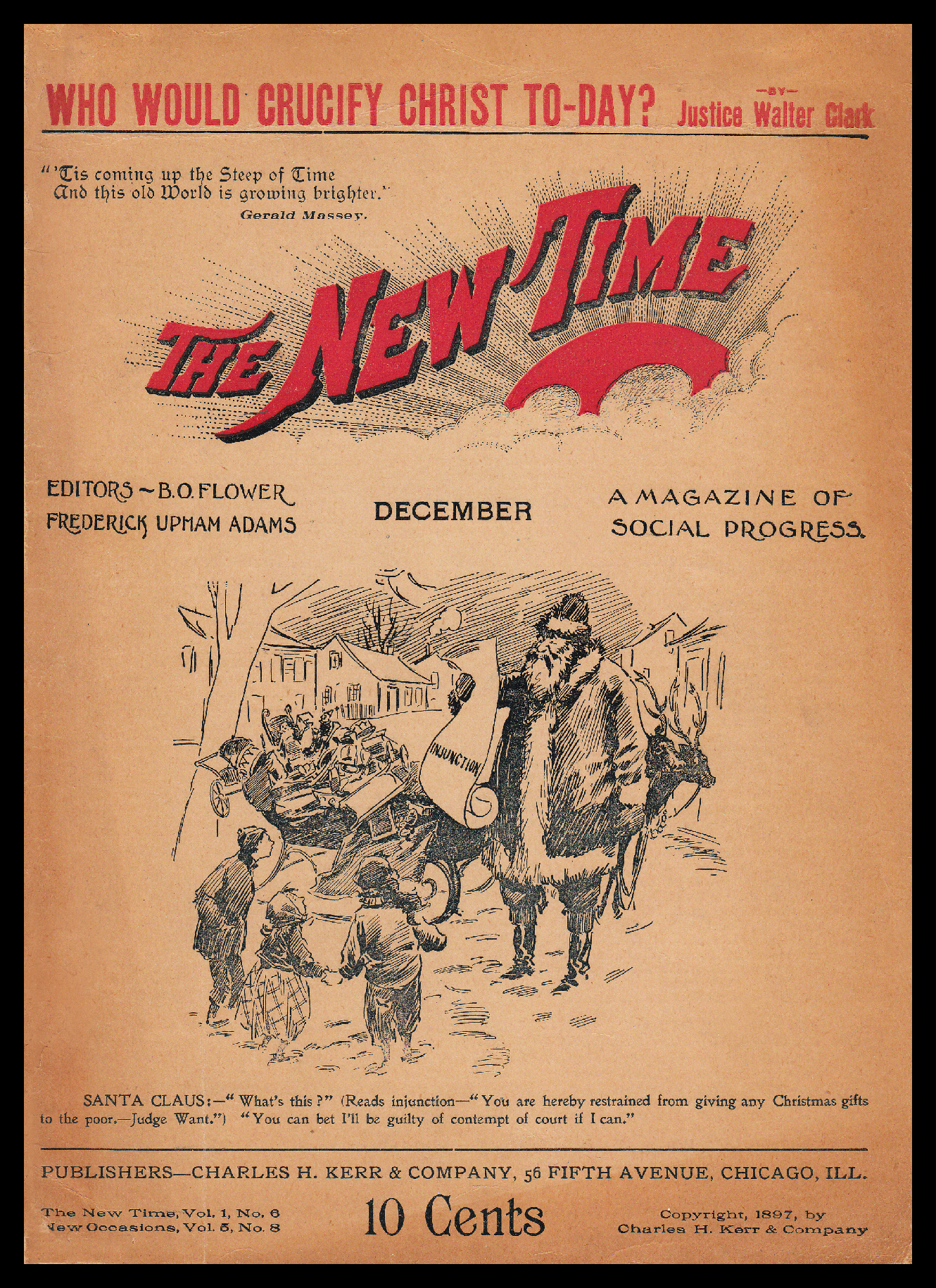 Cover of The New Time: A Magazine of Social Progress, Dec. 1897 issue. Editors: B.O. Flower and Frederick Upham Adams. Published by Charles H. Kerr & Co., Chicago. Cover art of Santa delivering an injunction to working class children, artist unknown. Published in the USA prior to 1923, public domain. Production Digitized and digitally edited by Tim Davenport ("Carrite") for Wikipedia from a specimen in his collection, no copyright claimed for the work. Released to the public domain without restriction.